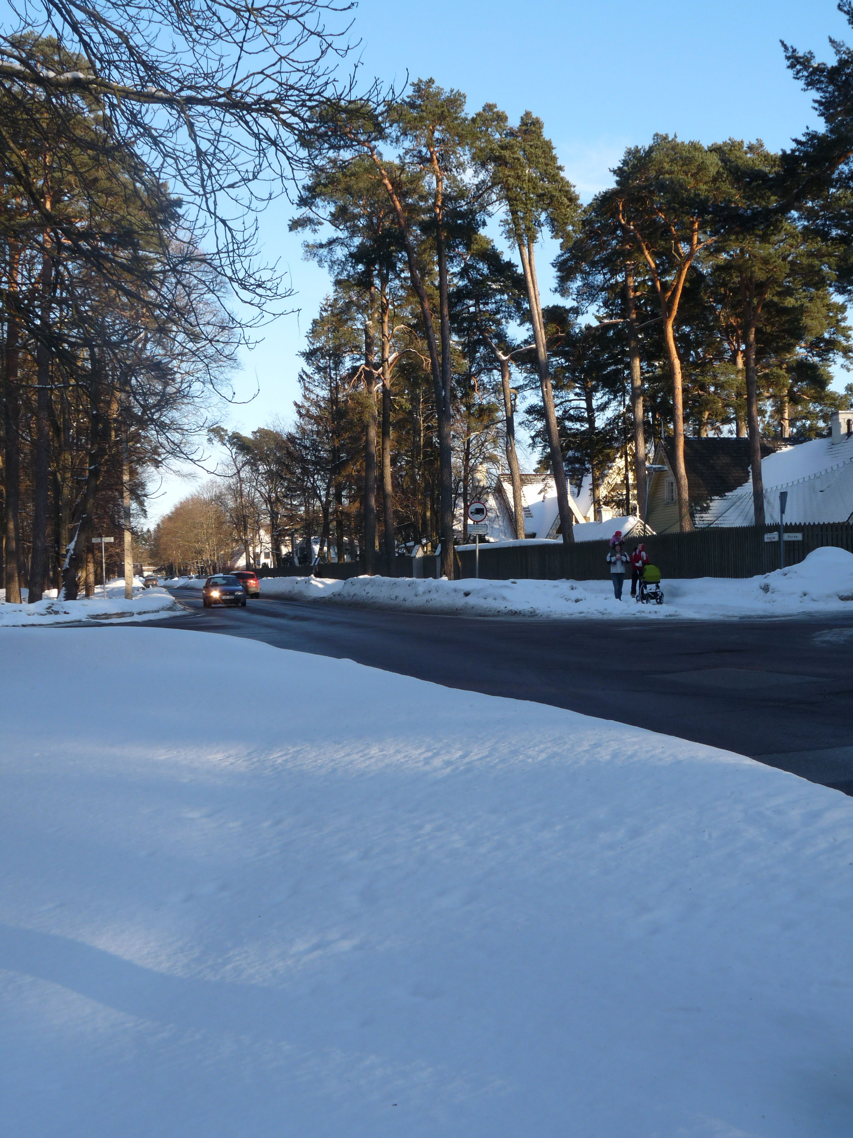 Kose-Lükati intersection